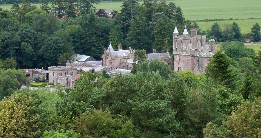 The Annandale Way is a 53-mile (85 km) hiking trail in Scotland. View of Hoddom Castle from the enigmatic Repentance Tower which is close-by and is also well worth visiting for the views it offers of the surrounding area. Scothill Own work 12th July 2011